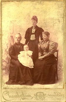 Laura Jernegan Spear, along with her infant son, Carleton, her mother, Helen Clark Jernegan and her grandmother, Mrs. Clark guess 1886